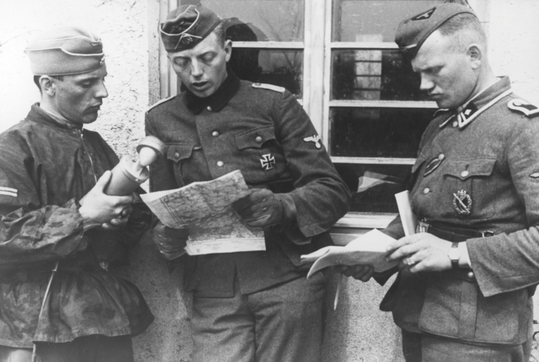 SS-Untersturmführer Fritz Klinkenberg is interviewed by a war correspondent about the conquest of Belgrade.